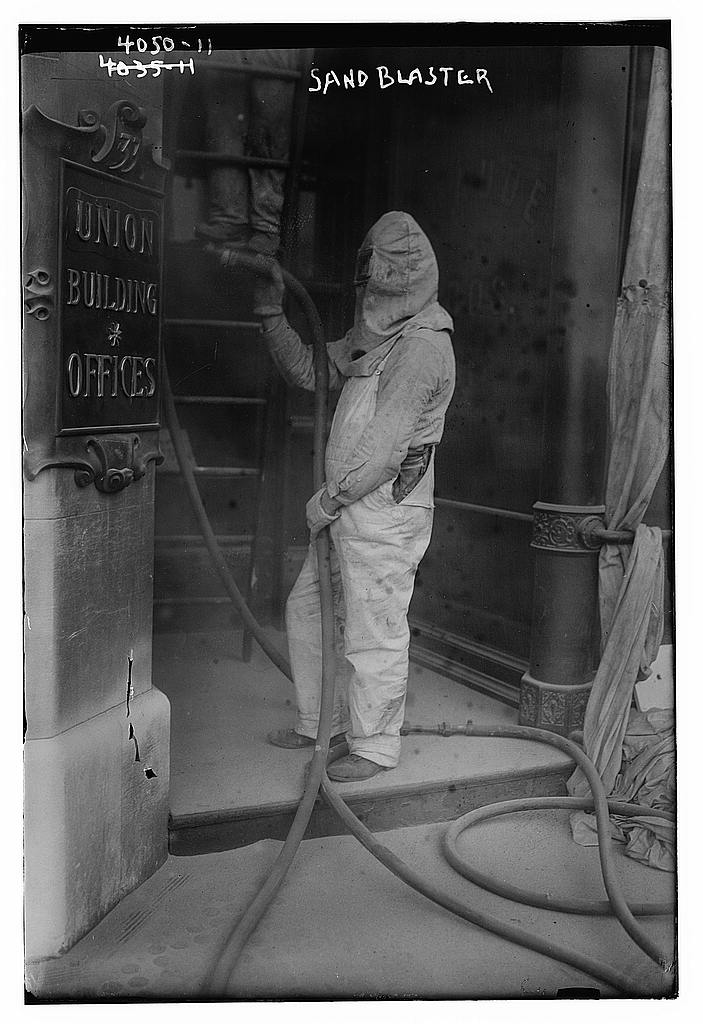 Bain News Service,, publisher. Sand Blaster [between ca. 1915 and ca. 1920] 1 negative : glass ; 5 x 7 in. or smaller. Notes: Title from unverified data provided by the Bain News Service on the negatives or caption cards. Forms part of: George Grantham Bain Collection (Library of Congress). Format: Glass negatives. Repository: Library of Congress, Prints and Photographs Division, Washington, D.C. 20540 USA, General information about the Bain Collection is available at Higher resolution image is available (Persistent URL): Call Number: LC-B2- 4050-11